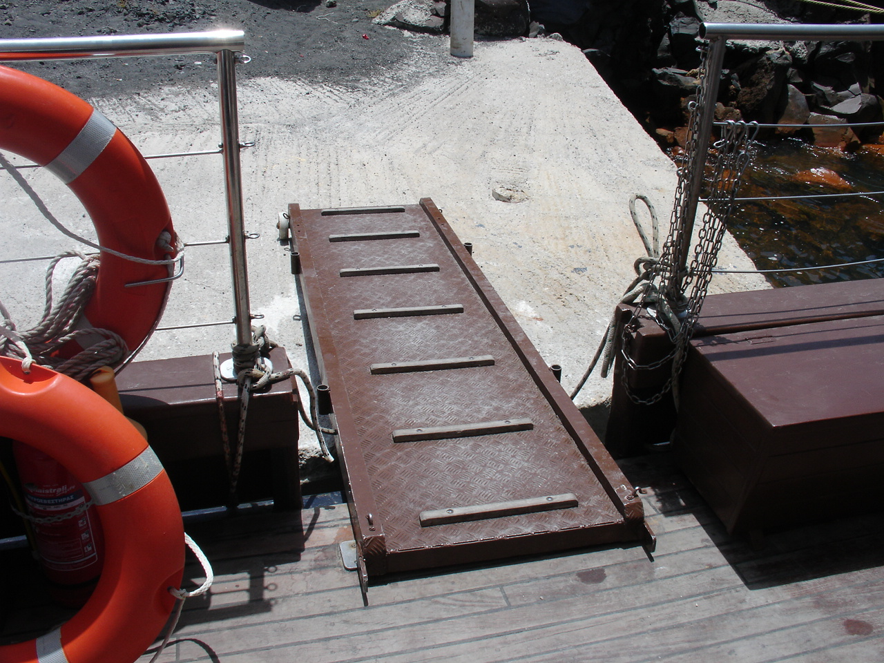 Gang plank on a small sea ship.